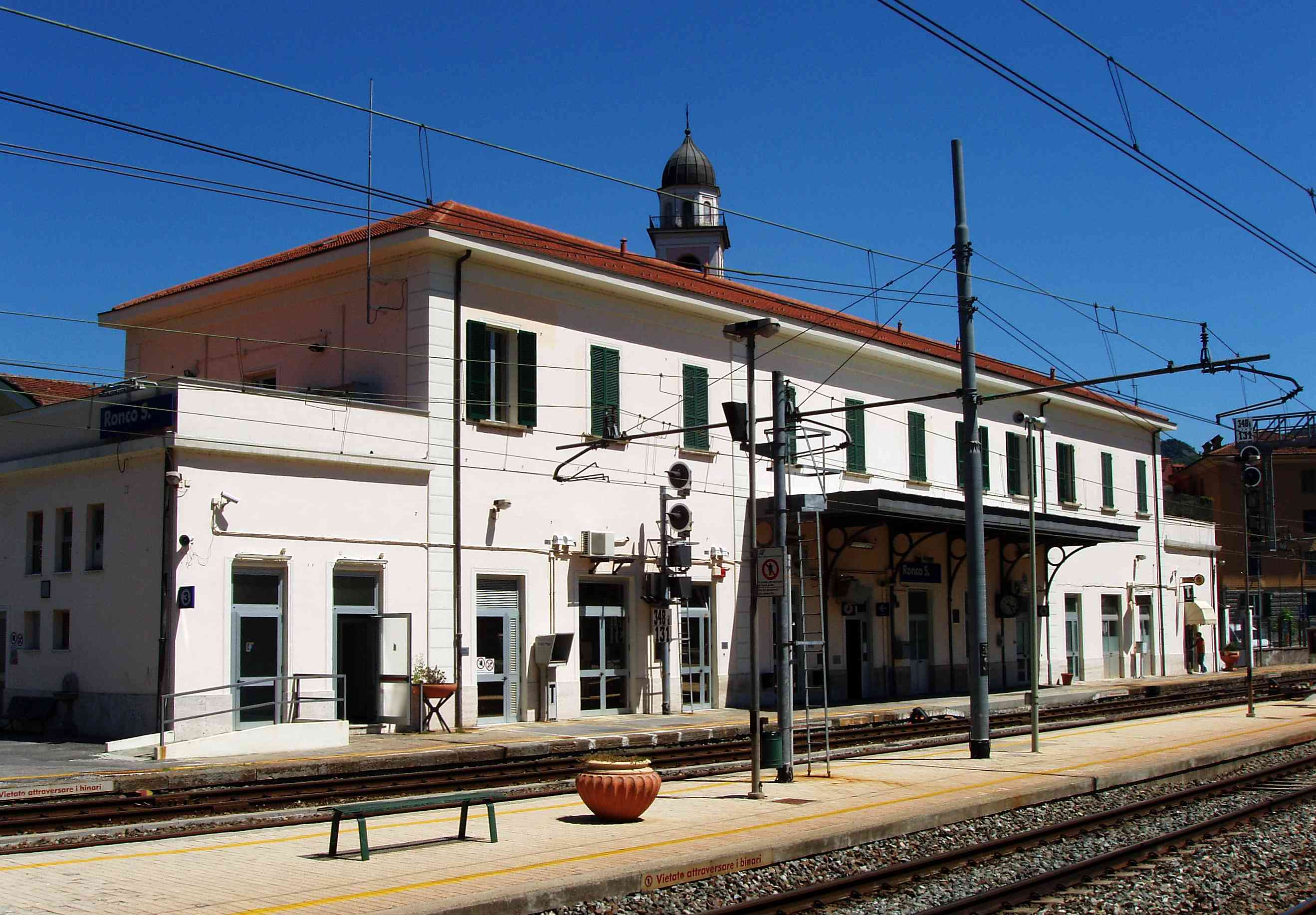 Ronco Scrivia train station